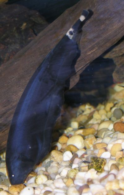 Black Ghost Knifefishen (Apteronotus albifrons en ).